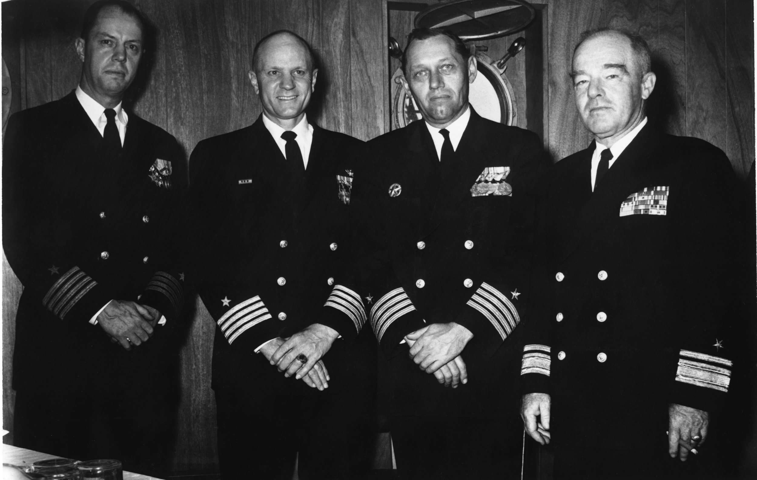 Caption from the page at reads: USS Chikaskia (AO-54) change of command; CAPT. E. L. Feightner relieved CAPT. R. B. Terrell in November 1964. Also present, CAPT. Refo and RADM Ailes. Photos from the collections of HM1 John Wagner, RADM E. L. Feightner, BM2 Charles Peterman, and LCDR Al Gordon, compiled and edited by BM3 David Zanzinger. Photo courtesy of Al Gordon, Secretary USS Chikaskia Reunion Organization. -- for details on what images are copyrighted. This one is not.